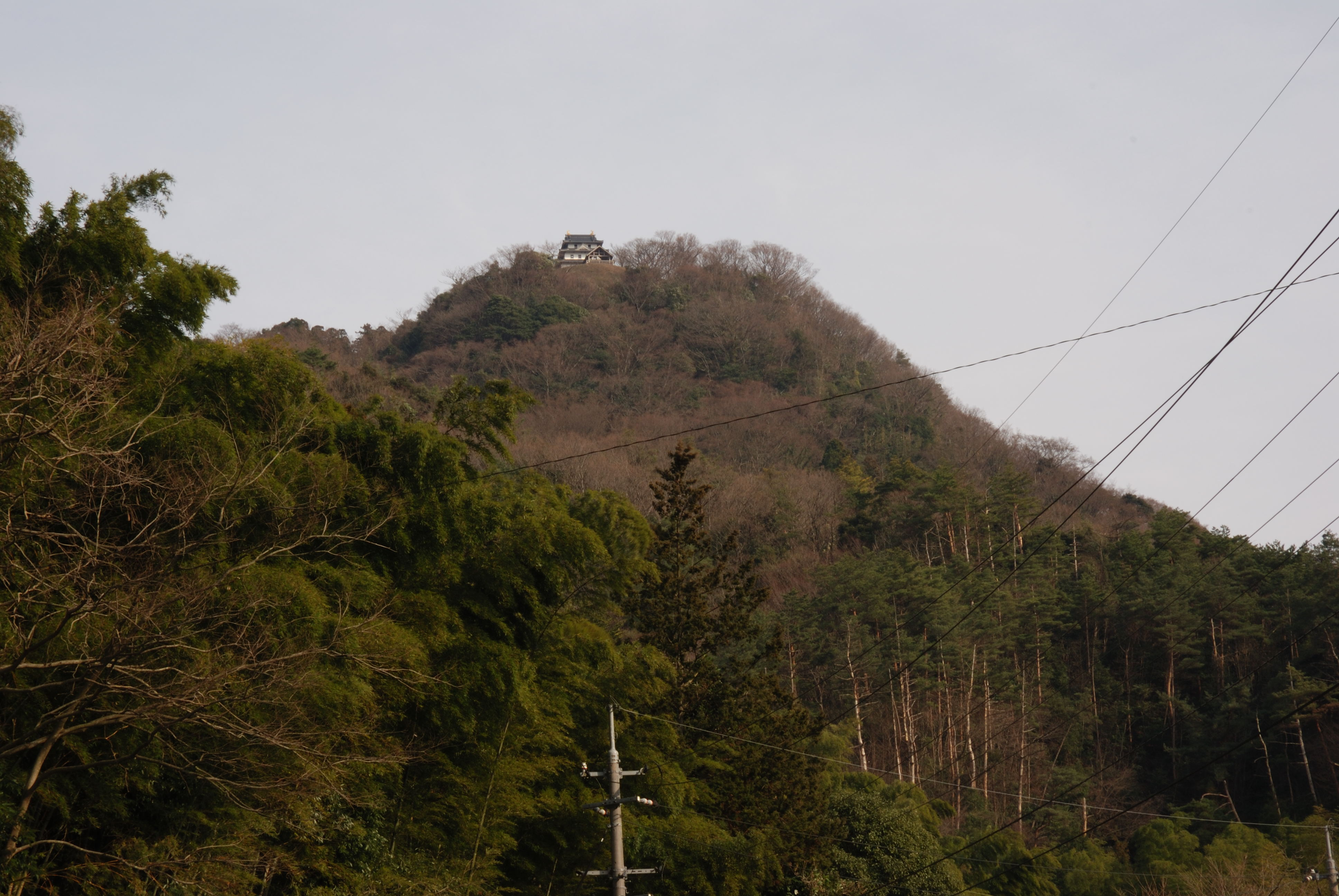 Ueshi castle